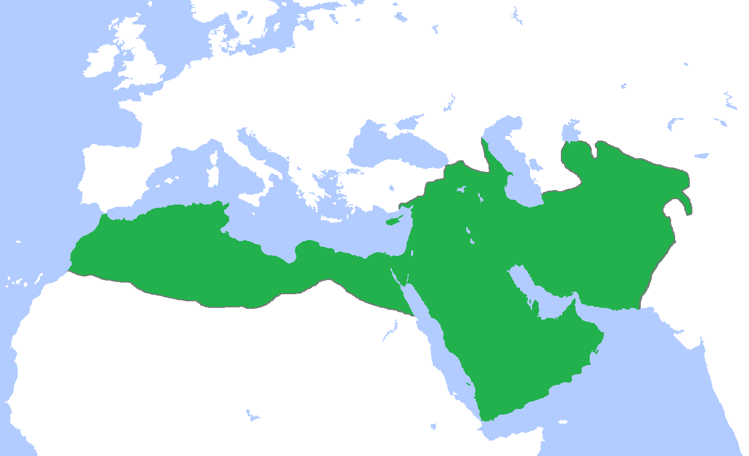 The Umayyad Caliphate on the eve of the invasions of Spain and Sindh in 710.